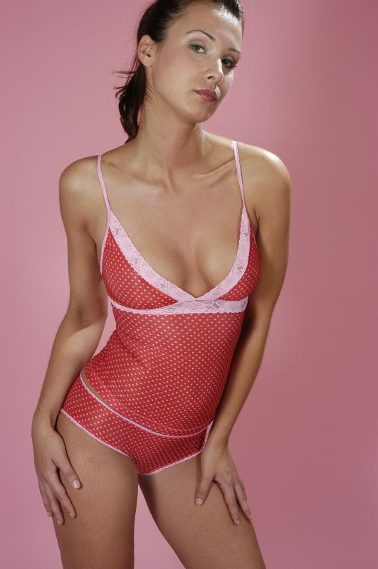 Woman wearing a red polkadot tankini.